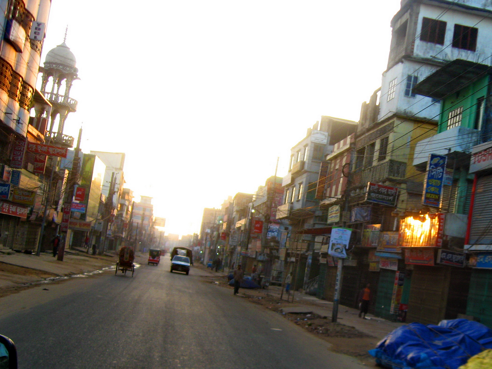 Empty city road in Chakbazar of Comilla at the dawn, one of the ways out of the town toward N 1.